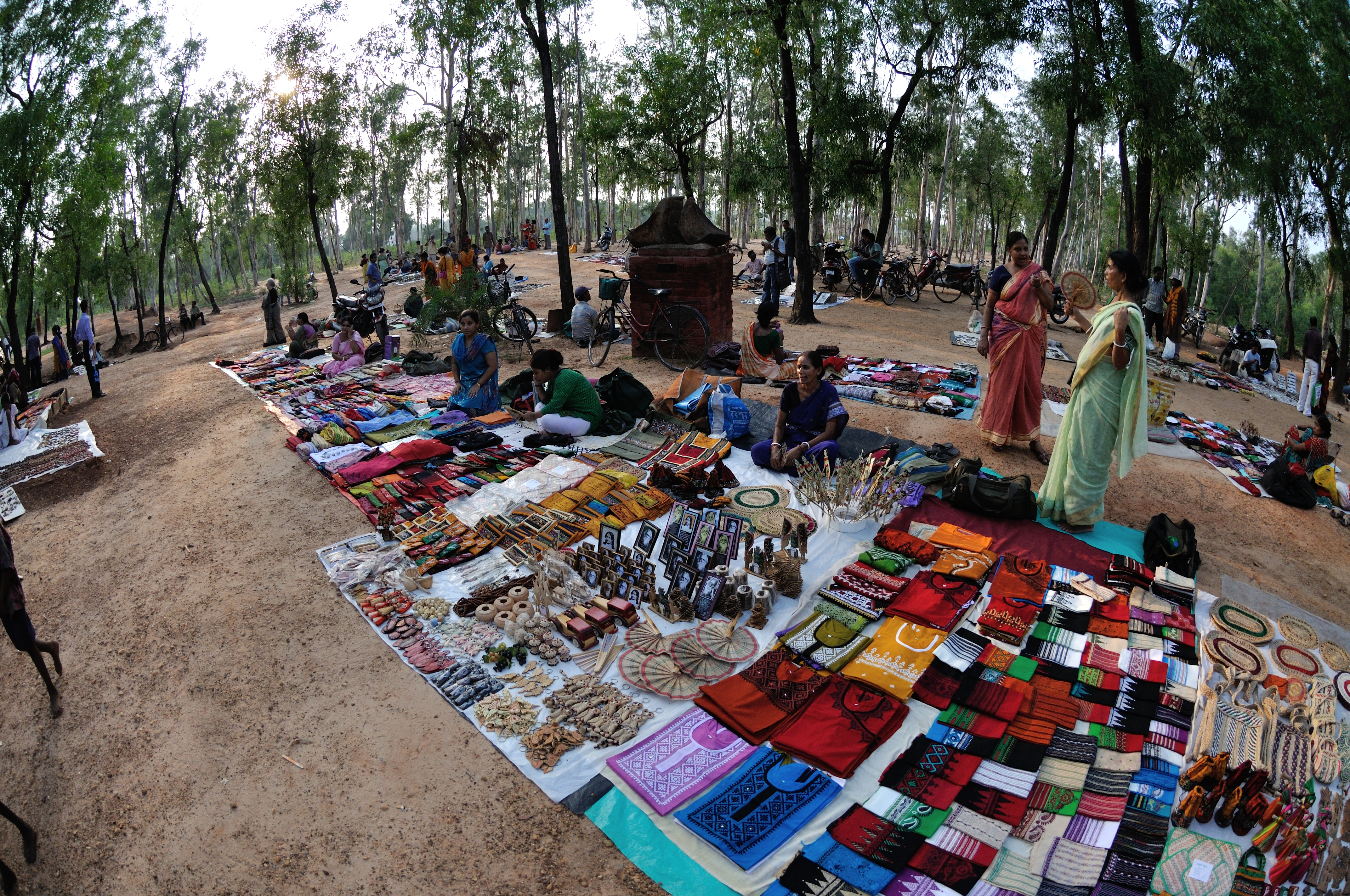 Photographed at the Sonajhuri-Khoai area. It is very near from Santiniketan and Prantik railway station, Birbhum. In every Saturday Haat ( bn: Sanibarer Haat) happen mainly with village people made ethnic decorative ornaments, house-hold materials and home-made sweets & snacks. The Baul songs are also performed by various Baul groups. The buyers are mainly come from Kolkata or other parts from West Bengal.